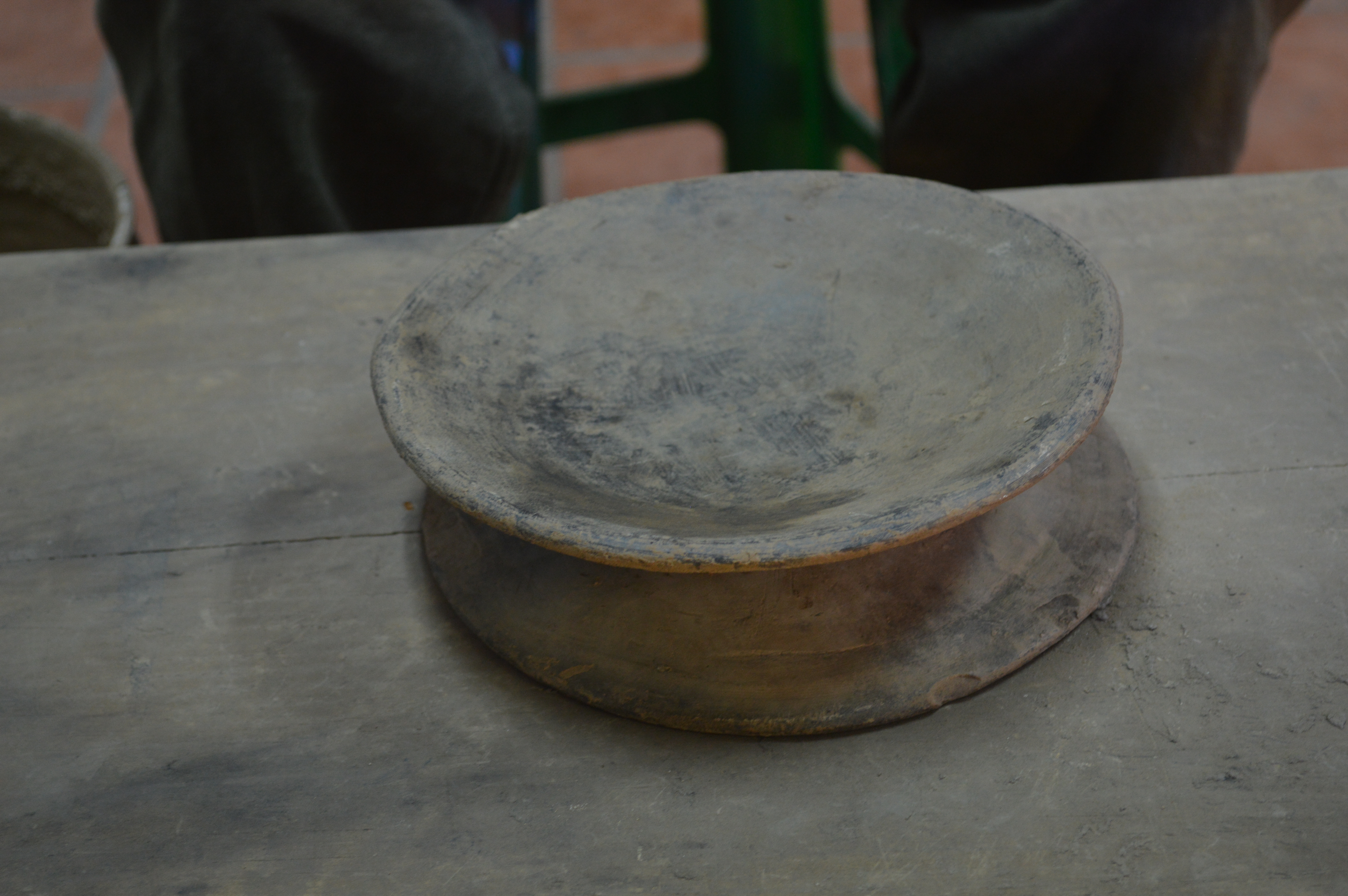 An inverted bowl with another on top as a kind of turntable at the Carlomagno Pedro Martinez workshop in San Bartolo Coyotepec, Oaxaca, Mexico